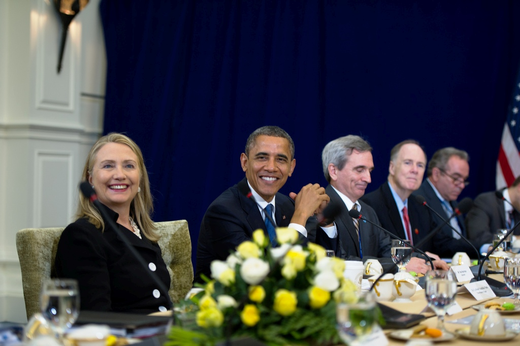 U.S. President Barack Obama and U.S. Secretary of State Hillary Rodham Clinton meet with Japanese Prime Minister Yoshihiko Noda for a bilateral meeting during the East Asia Summit at the Peace Palace in Phnom Penh, Cambodia, November 20, 2012. President Obama is the first U.S. President to visit Cambodia. [State Department photo by William Ng/ Public Domain]